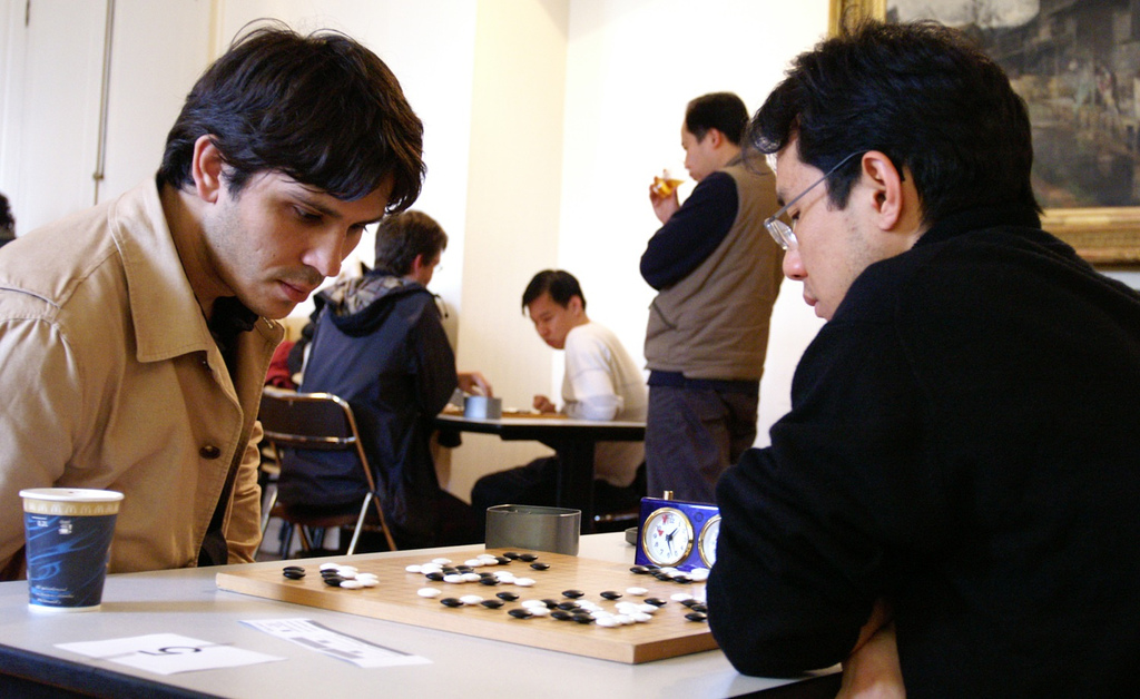 Catalin Taranu vs Wataru Miyakawa in a 2006 Go tournament in Paris.